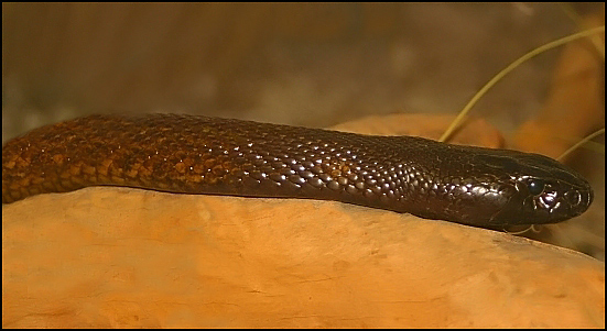 Fierce Snake (Oxyuranus microlepidotus)